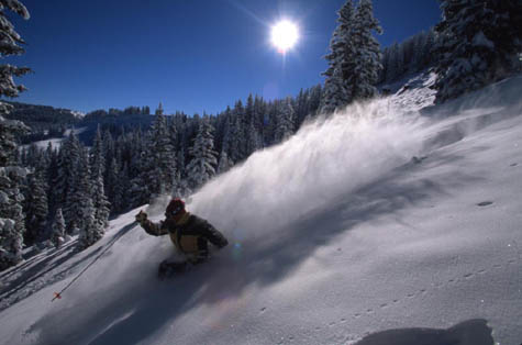 Blue Sky Basin Vail Colorado USA, Skier in yellow and black jacket with red hat skiing through powder in Vail's Blue Sky Basin in the winter with a sun starburst in the sky Vail